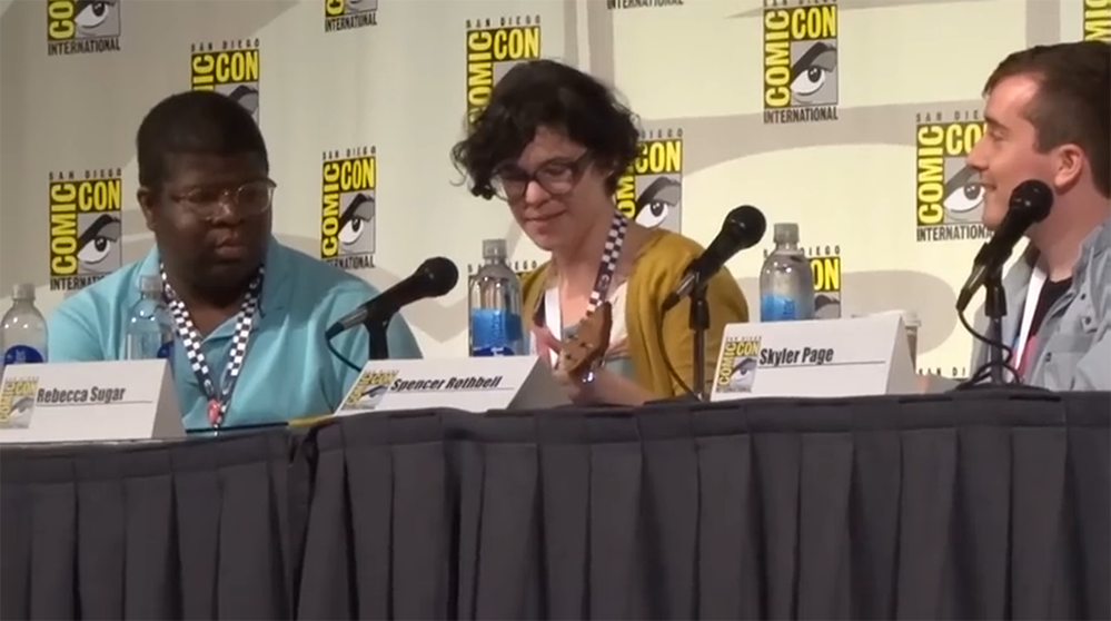 Photo taken to Rebecca Sugar in a host while she sinsg a song composed by herself at the Comic Con.